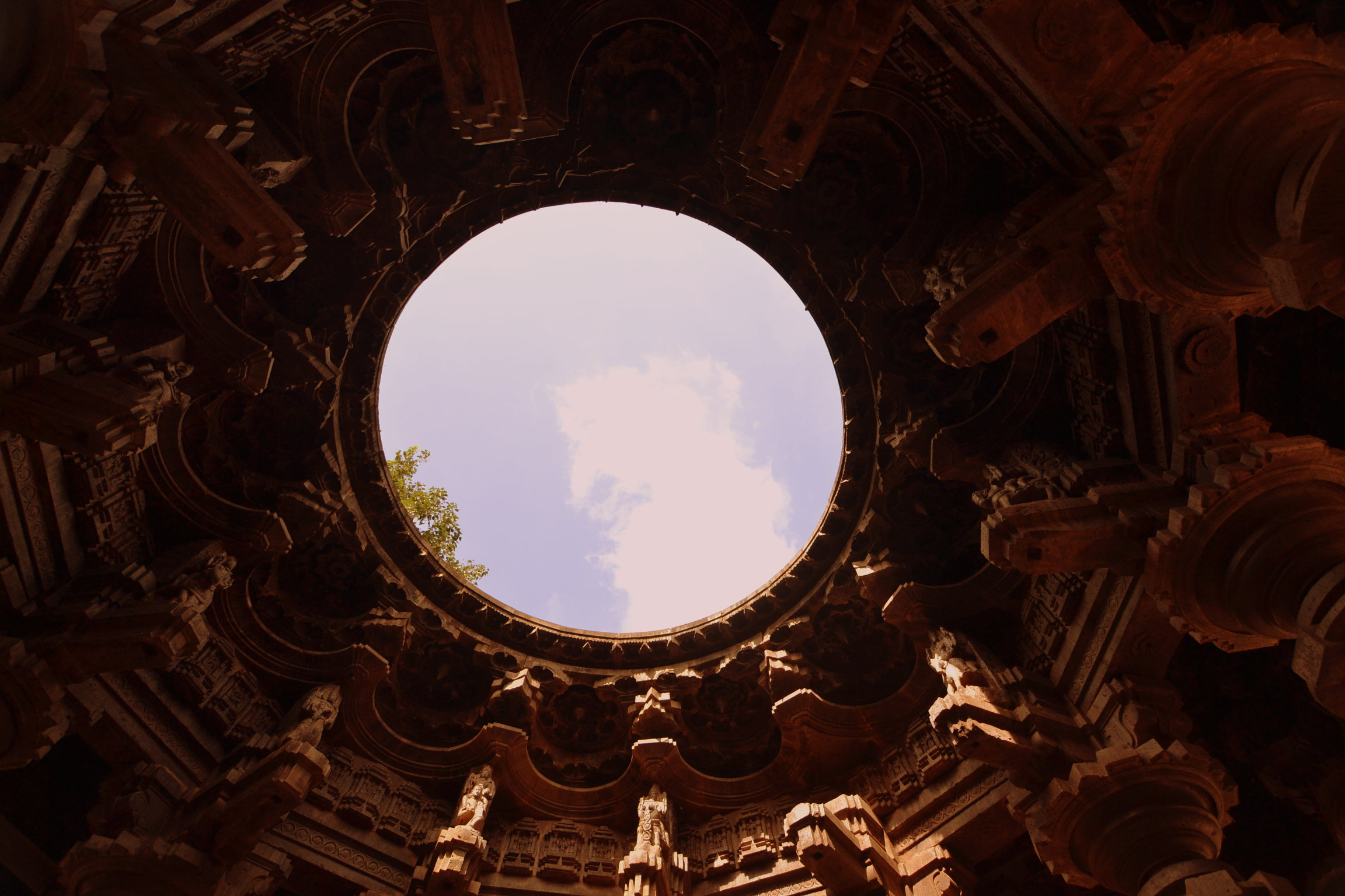 Inside view of SwargaGruha of Kopeshwar Temple, Khidrapur